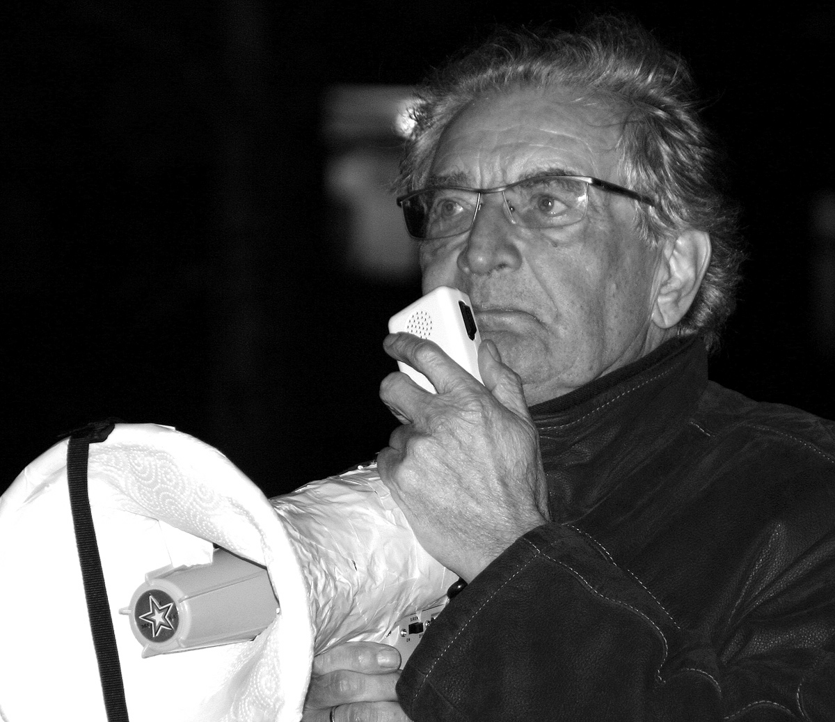 Gerhart Baum, German politician, at a demonstration in Cologne against telecommunications data retention